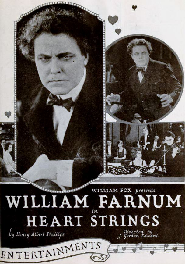 Advertisement for the American drama film Heart Strings (1920) with William Farnum, on page 23 of the December 27, 1919 Exhibitors Herald.